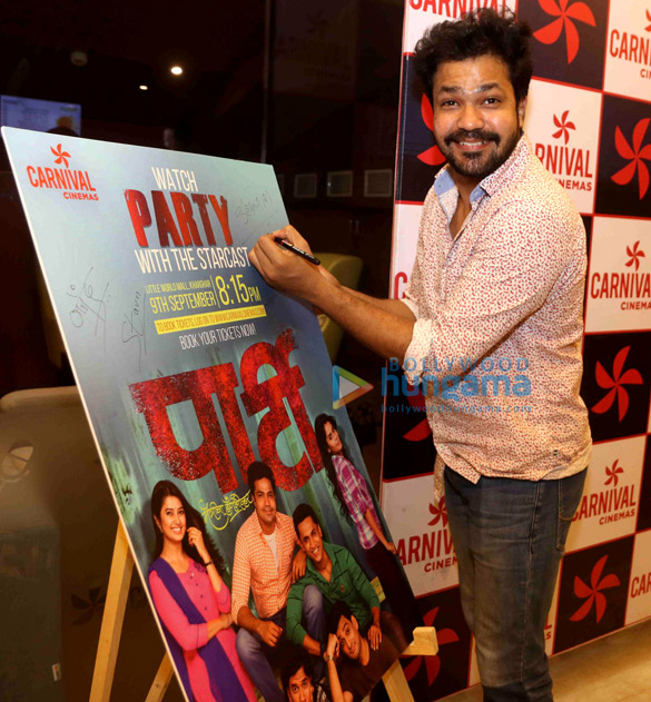 Suvrat Joshi promoting his Marathi film 'Party'